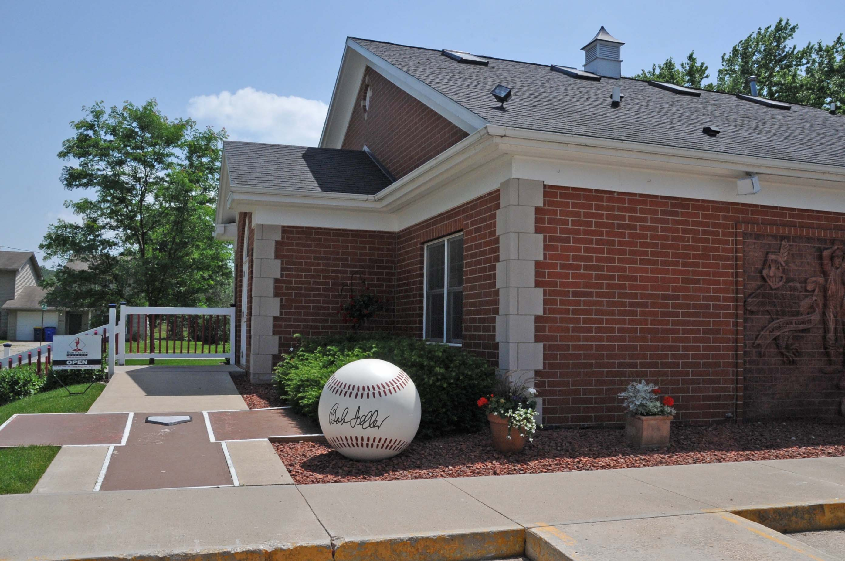 THIS MUSEUM IS RIGHT IN THE CENTER OF VAN METER ONLY A FEW MILES FROM THE FELLER HOMESTEAD